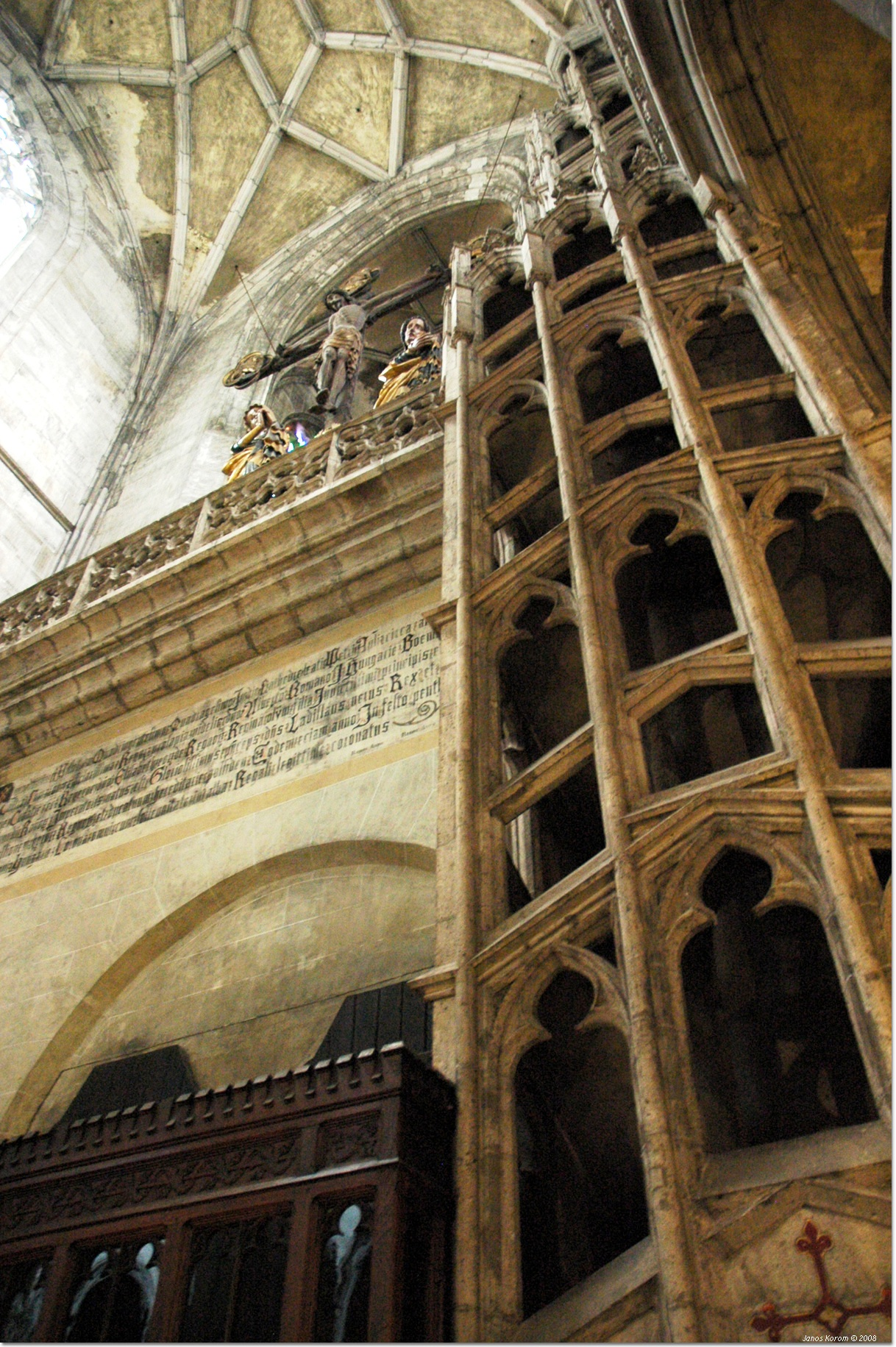 St. Elisabeth Cathedral /Košice